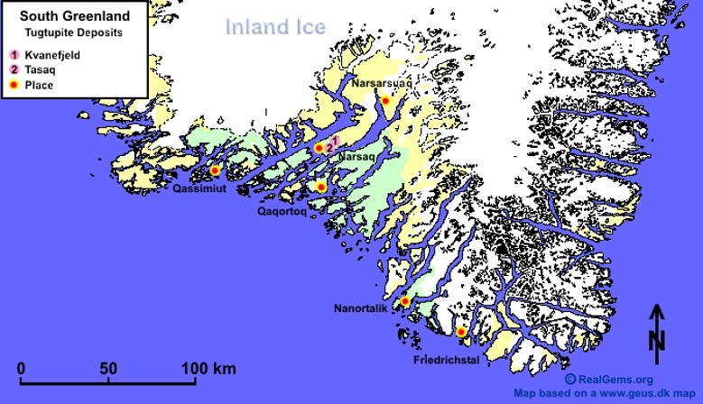 Map of South Greenland showing the Tugtupite deposit area.